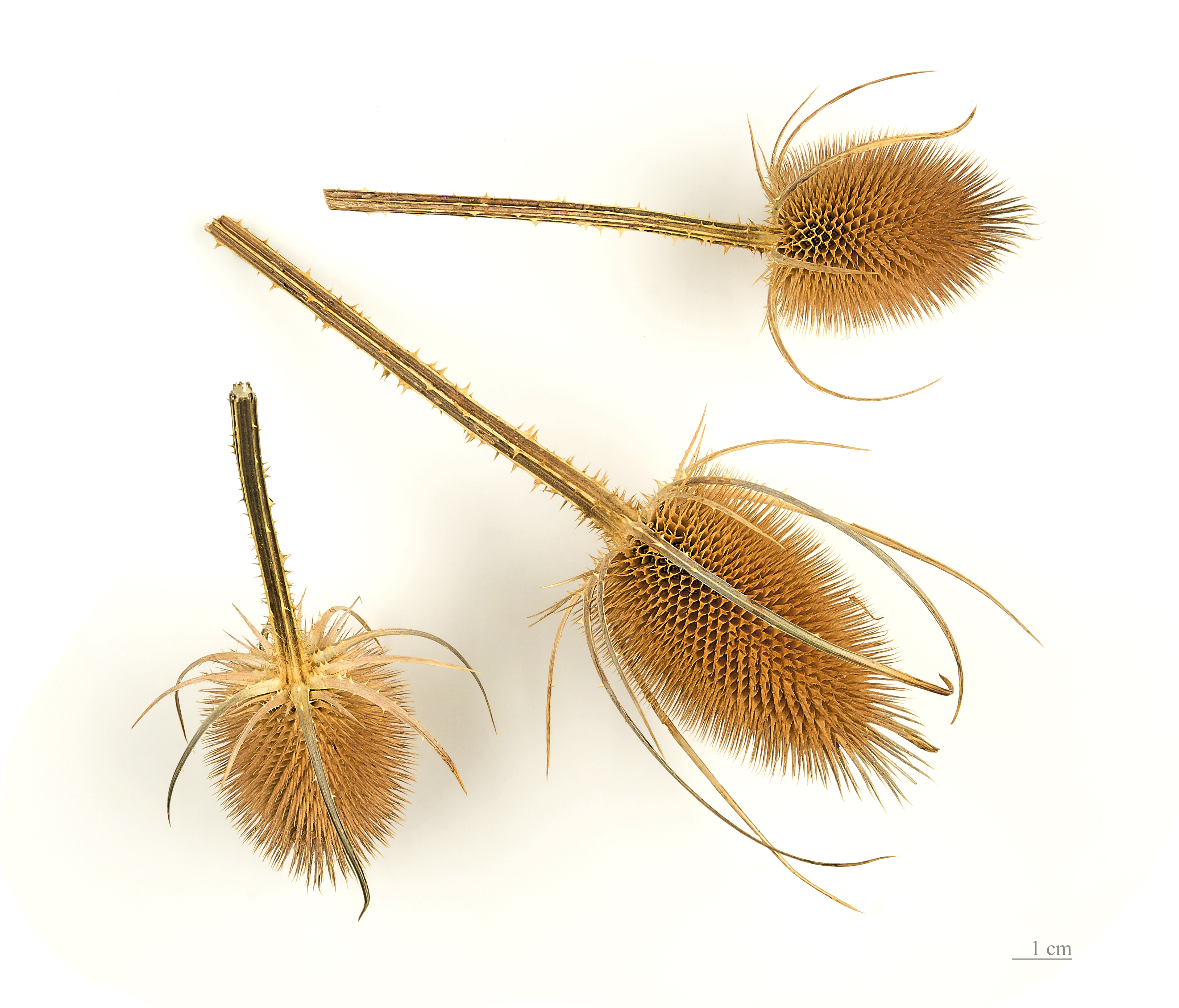 Fruit at maturity, of Fuller's teasel.